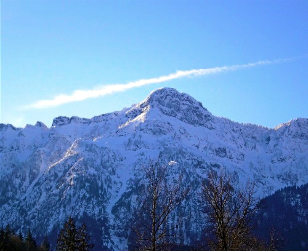 Mount Persis as seen from the town of Index, WA